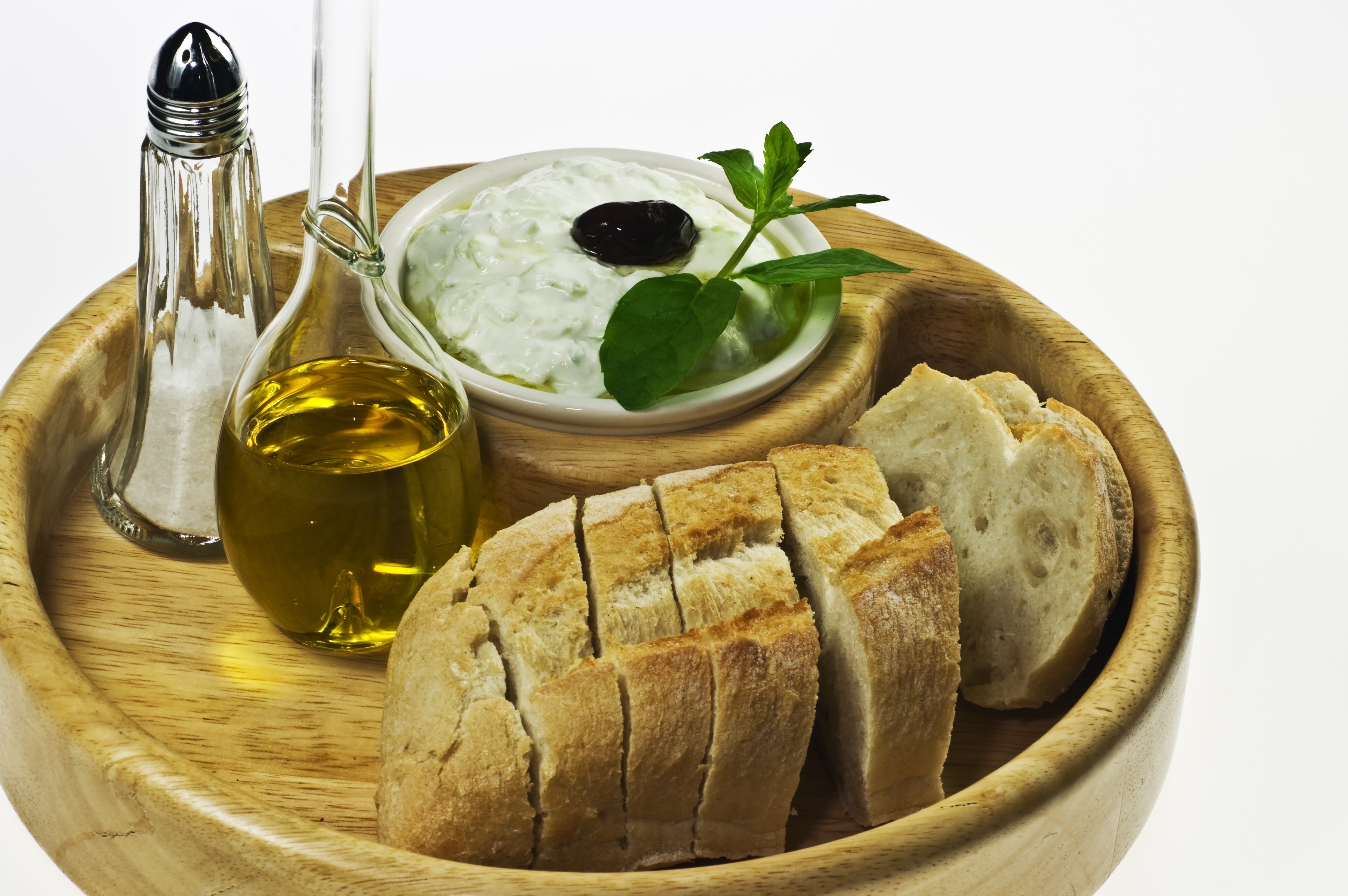 Tzatziki, tzadziki, or tsatsiki - Greek meze or appetizer, also used as a sauce